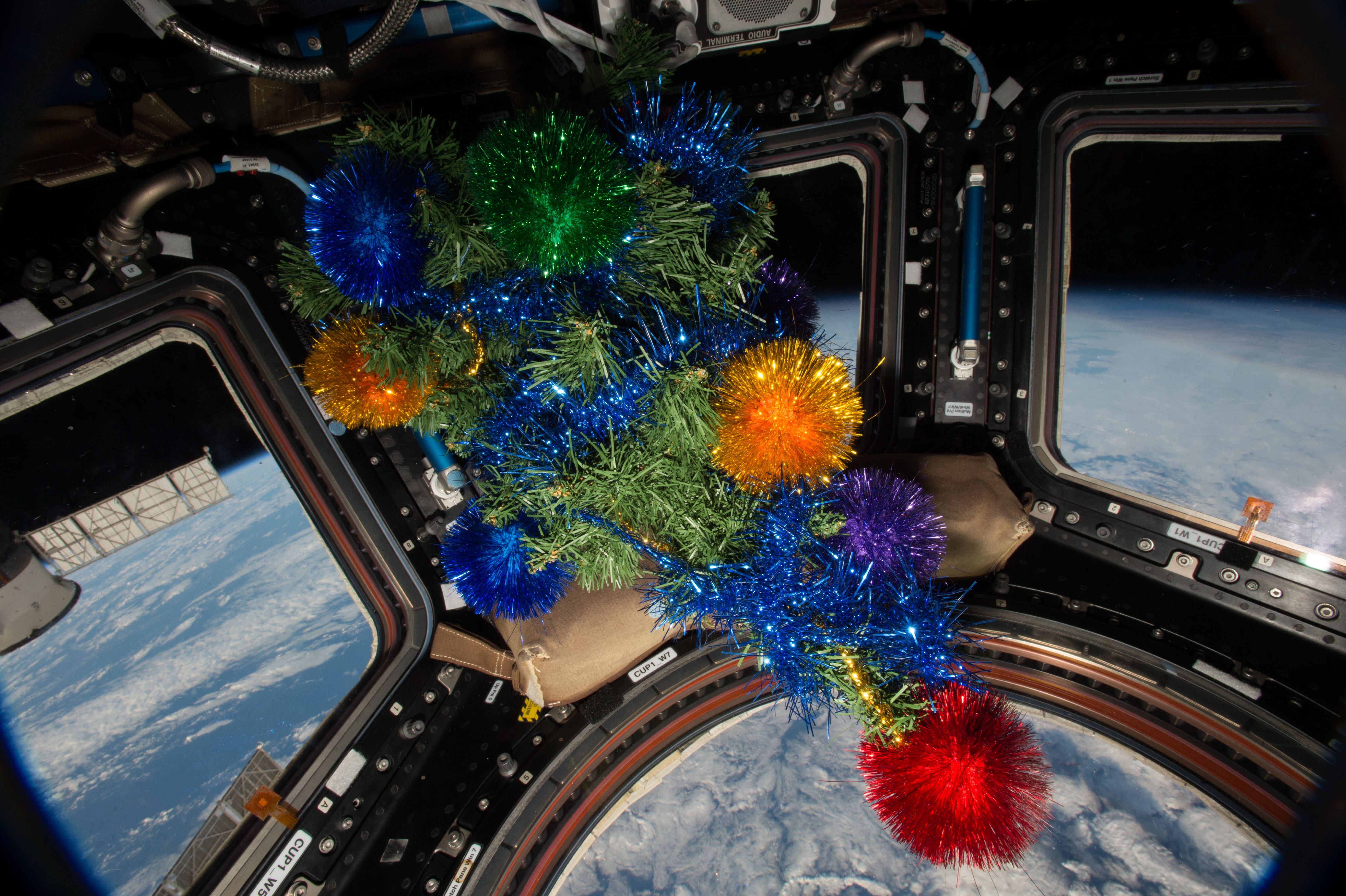 Happy Holiday in space. The crew of Expedition 46 decorated the International Space Station's Cupola module, a 360-degree series of windows that provides a stunning view of Earth for observations, while also containing the primary controls for the Canadarm2 robotic arm.